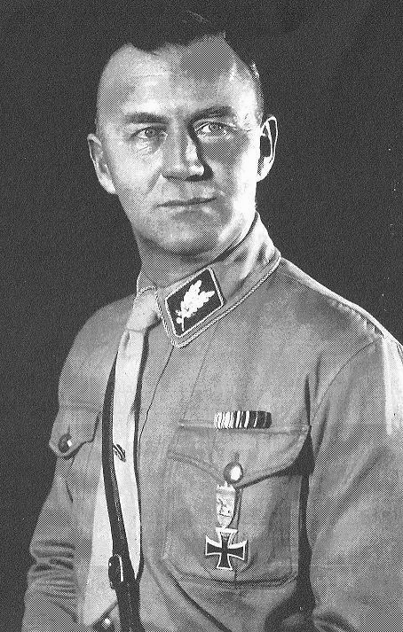 August Schneidhuber, SA-Obergruppenfuehrer and President of the Munich Police from 1933 to 1934. Executed during the Roehm Purge of 1934.